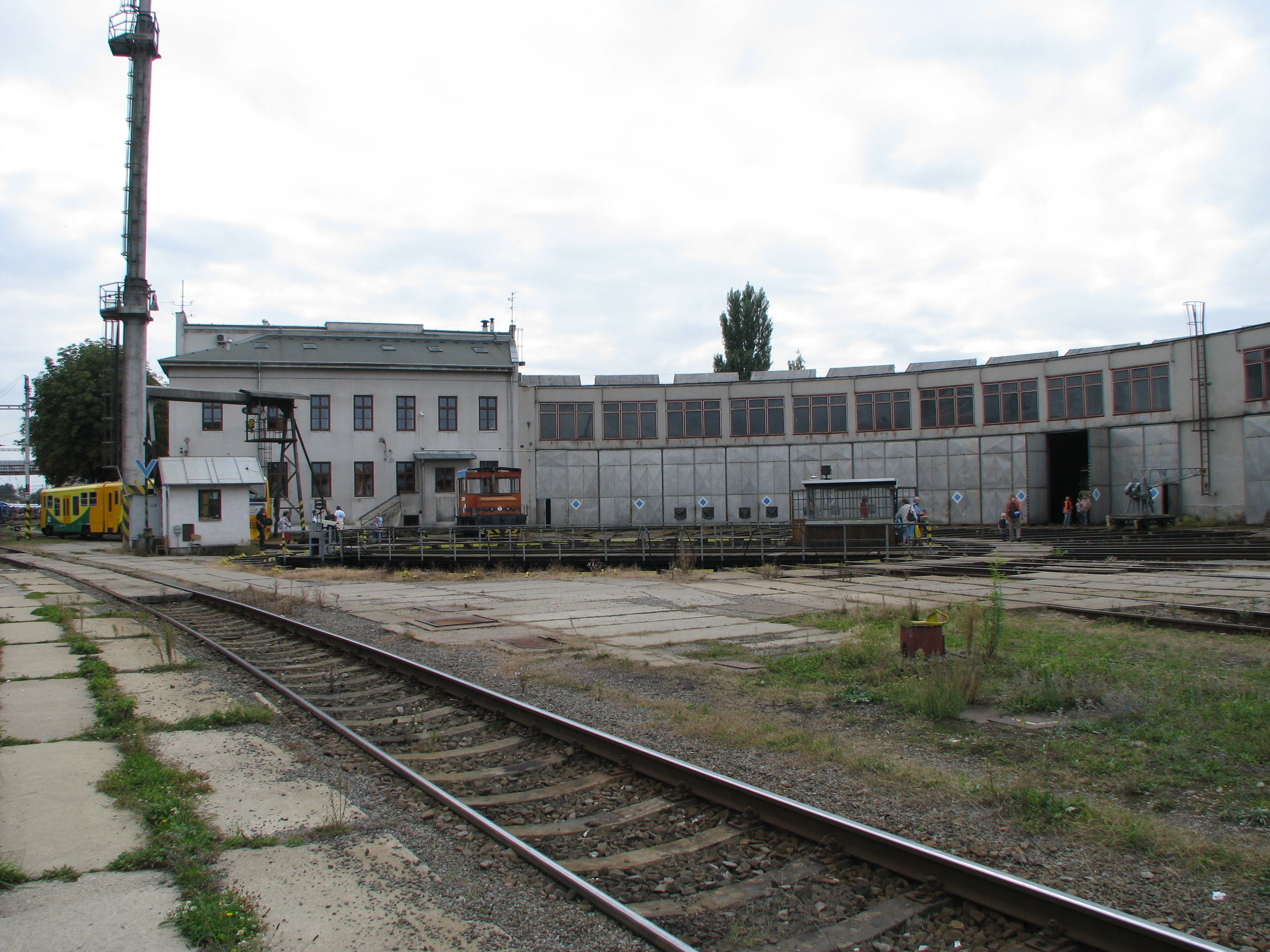 Railway station in Hradec Králové, railway turntable